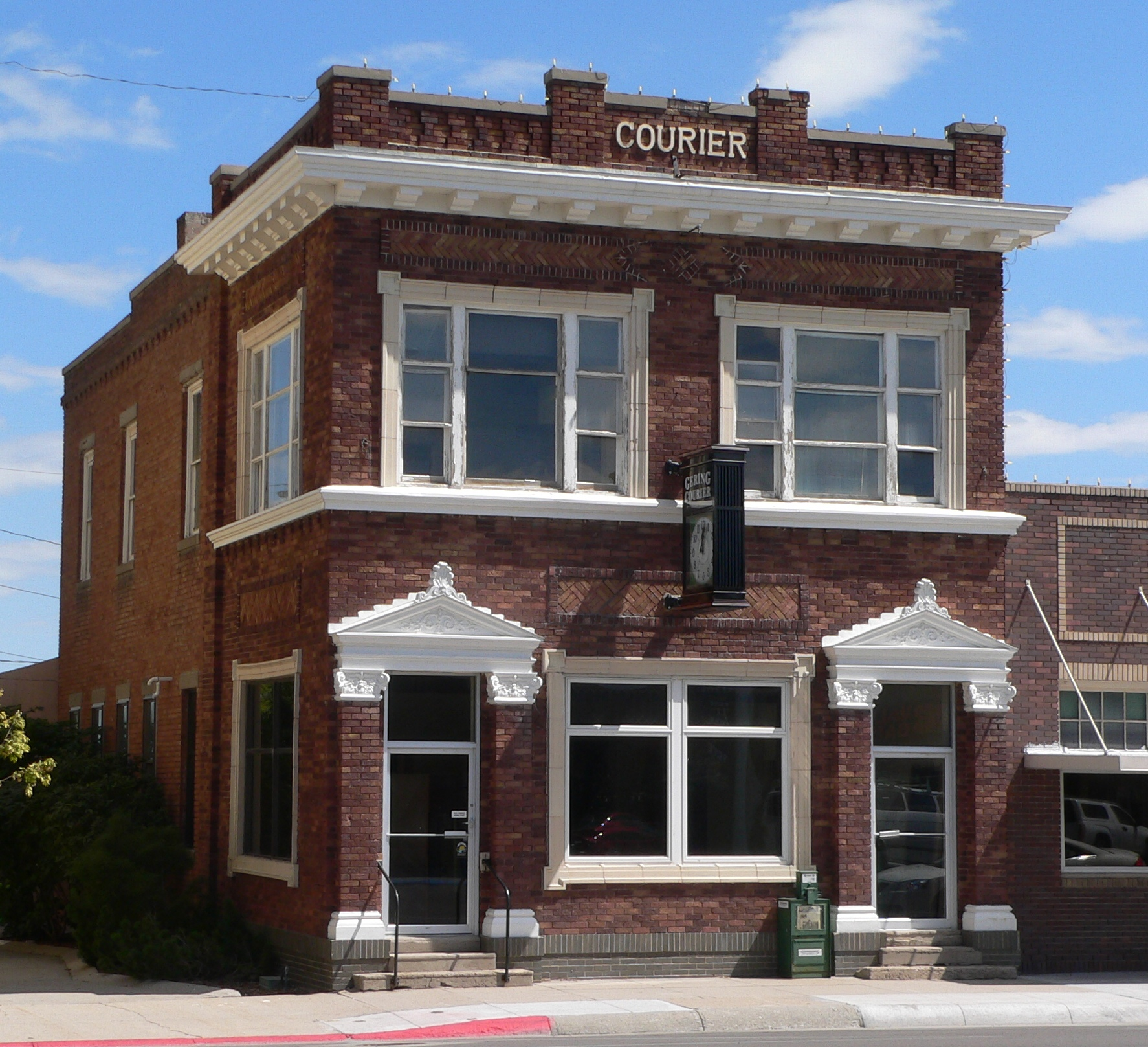 Gering Courier building in Gering, Nebraska; seen from the northwest. The Classical Revival building was constructed in 1915. It is listed in the National Register of Historic Places. At the time of the photograph, the first floor interior was apparently undergoing renovation, and there was no evidence of a business currently operating from the building.